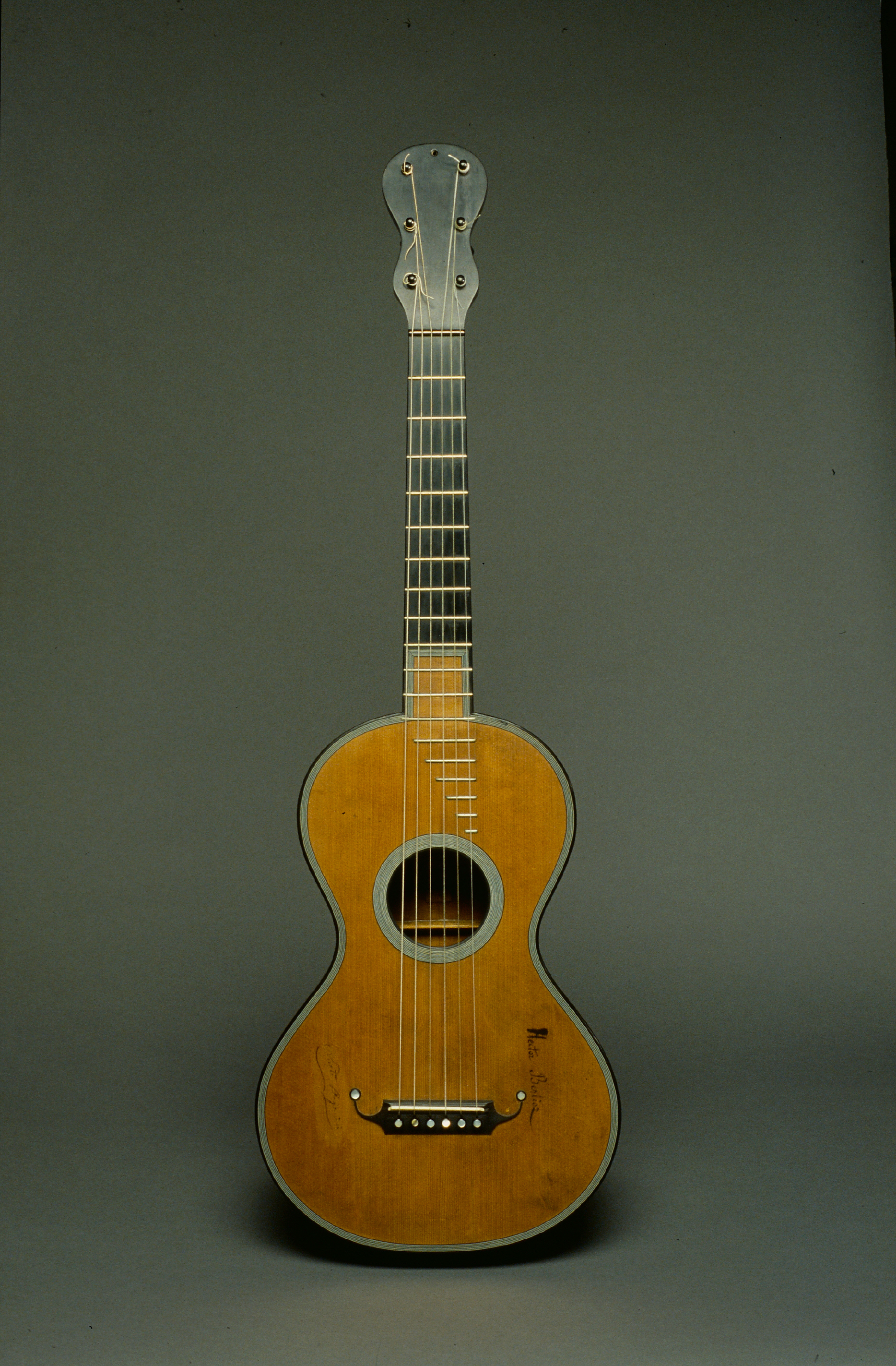 Jean-Nicolas Grobert (1794-1869)- Early Romantic Guitar, Paris around 1830 Early romantic guitar (Paris around 1830) by Jean-Nicolas Grobert (1794-1869). Instrument top shows signatures of Paganini and Berlioz . The guitar was loaned to Paganini by Jean-Baptiste Vuillaume in 1838 and later given by Vuillaume to Berlioz[1], who later donated it to the Musée du Conservatoire de musique in 1866[2][3]. Today the guitar is displayed at the Museum Cité de la Musique in Paris (Inventory Number E.375). Zoom image References ↑ Grobert guitar from Le Musée du Conservatoire national de musique by Gustave Chouquet ↑ Grobert guitar - brief details ↑ Grobert guitar from The guitar and mandolin : biographies of celebrated players and composers for these instruments by Philip James Bone Links Grobert guitar from Cité de la Musique Grobert guitar image Grobert guitar image